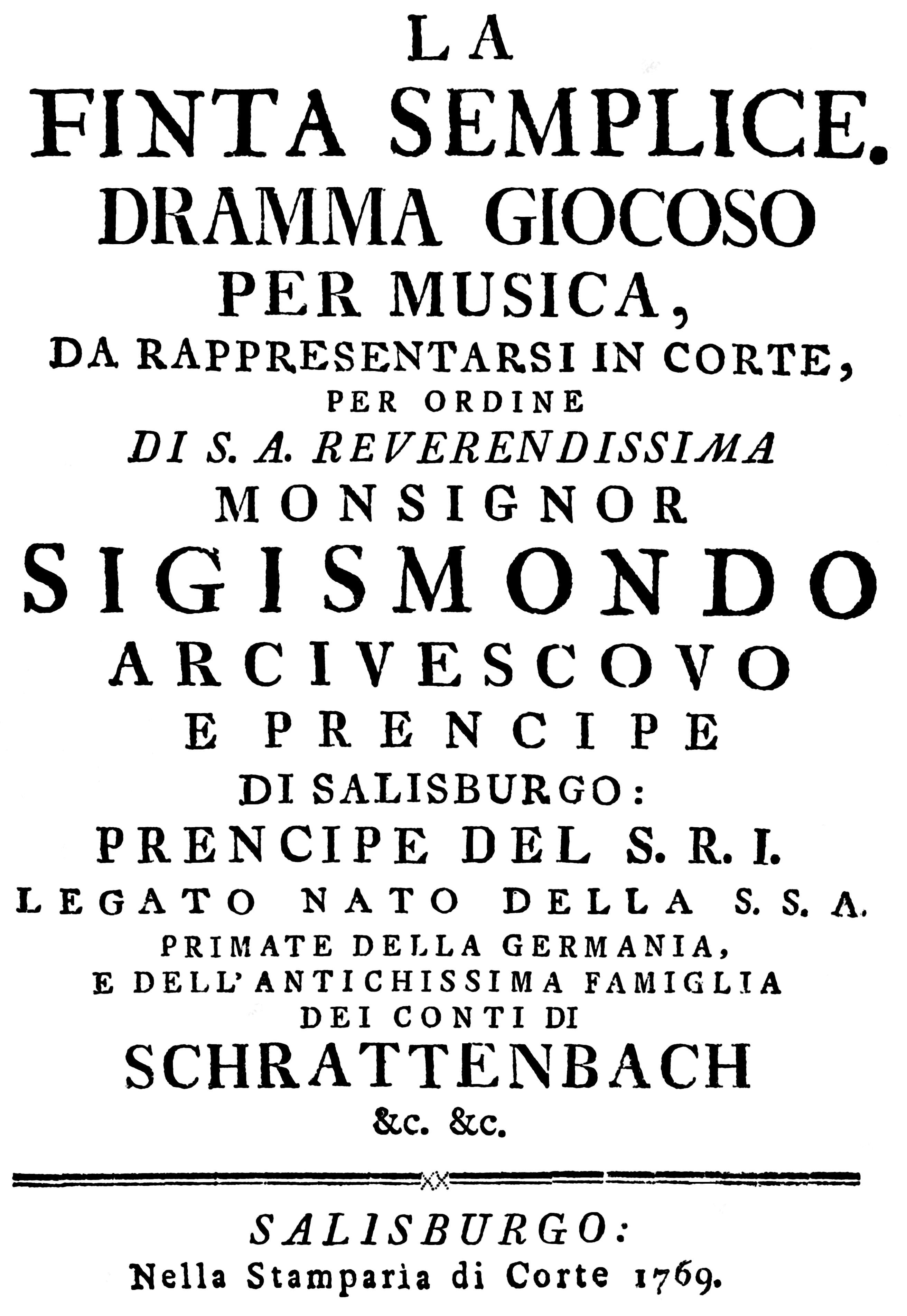 Mozart - La finta semplice - title page of the libretto, Salzburg 1769